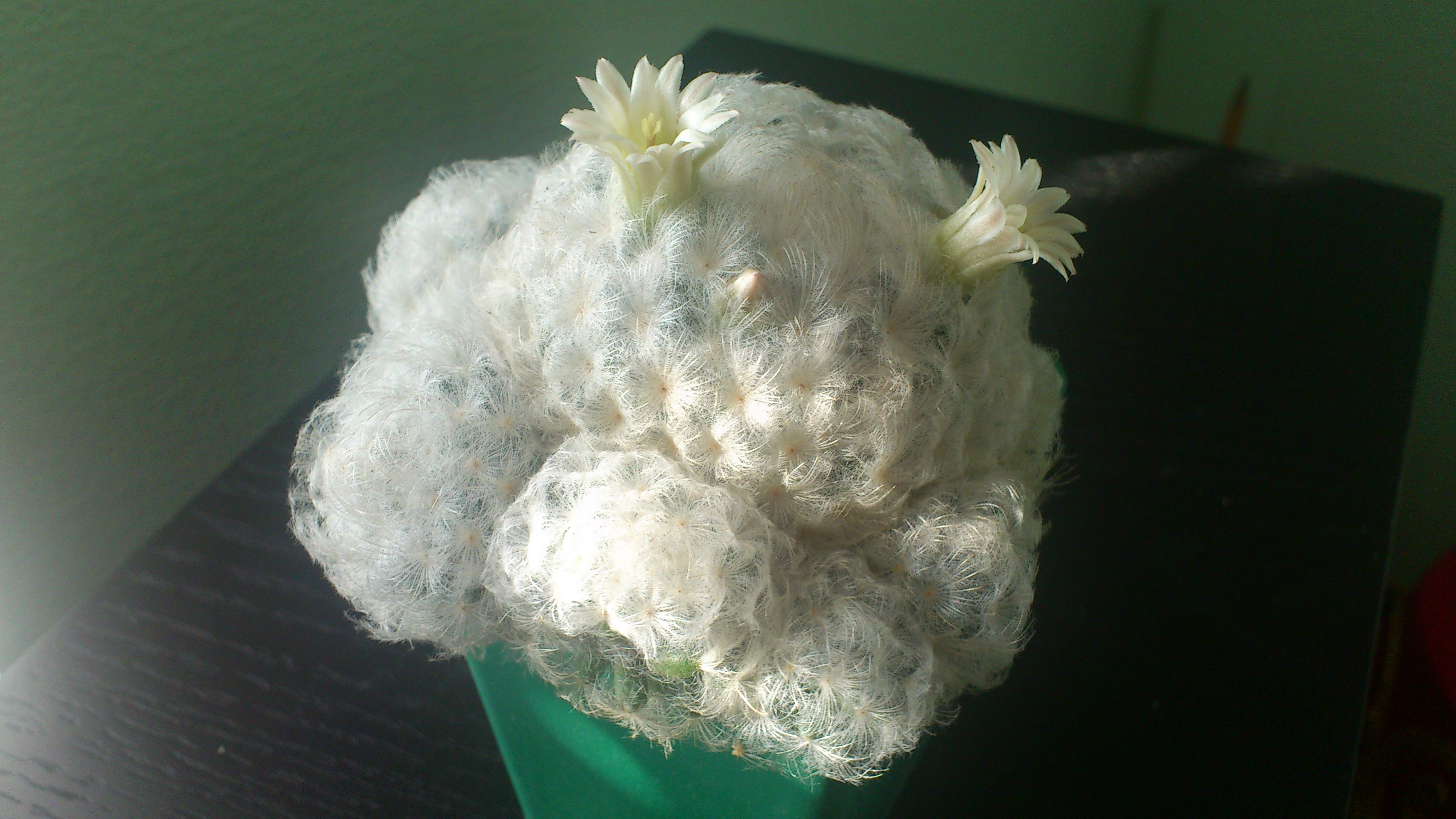 Mammillaria plumosa